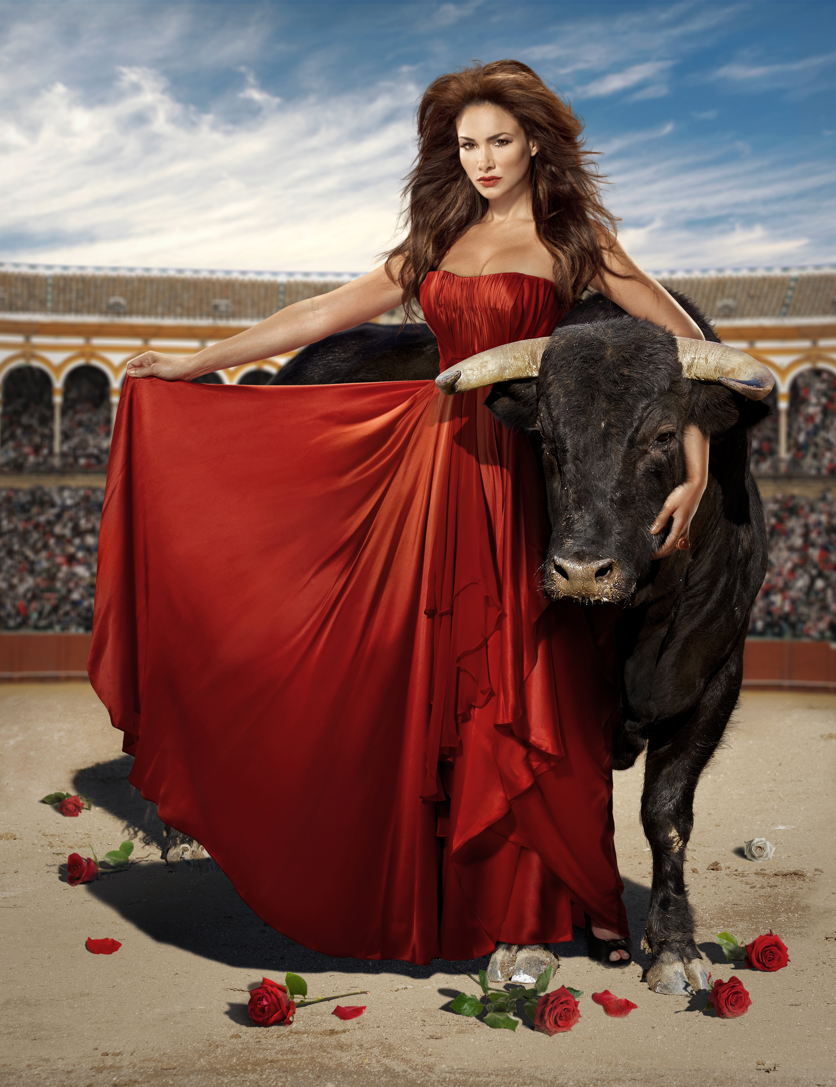 Patricia Michelle De León (born January 2 in Panama City, Panama) is an actress, model and television host. Patricia De León is a big supporter for People for the Ethical Treatment of Animals (PETA) in the Hispanic community and believes in spreading the word about the benefits of being a vegetarian. She currently plays an active role in stopping bullfights around the world and was recently the image for PETA's campaign against bullfights portrayed by photographer Kike San Martín.